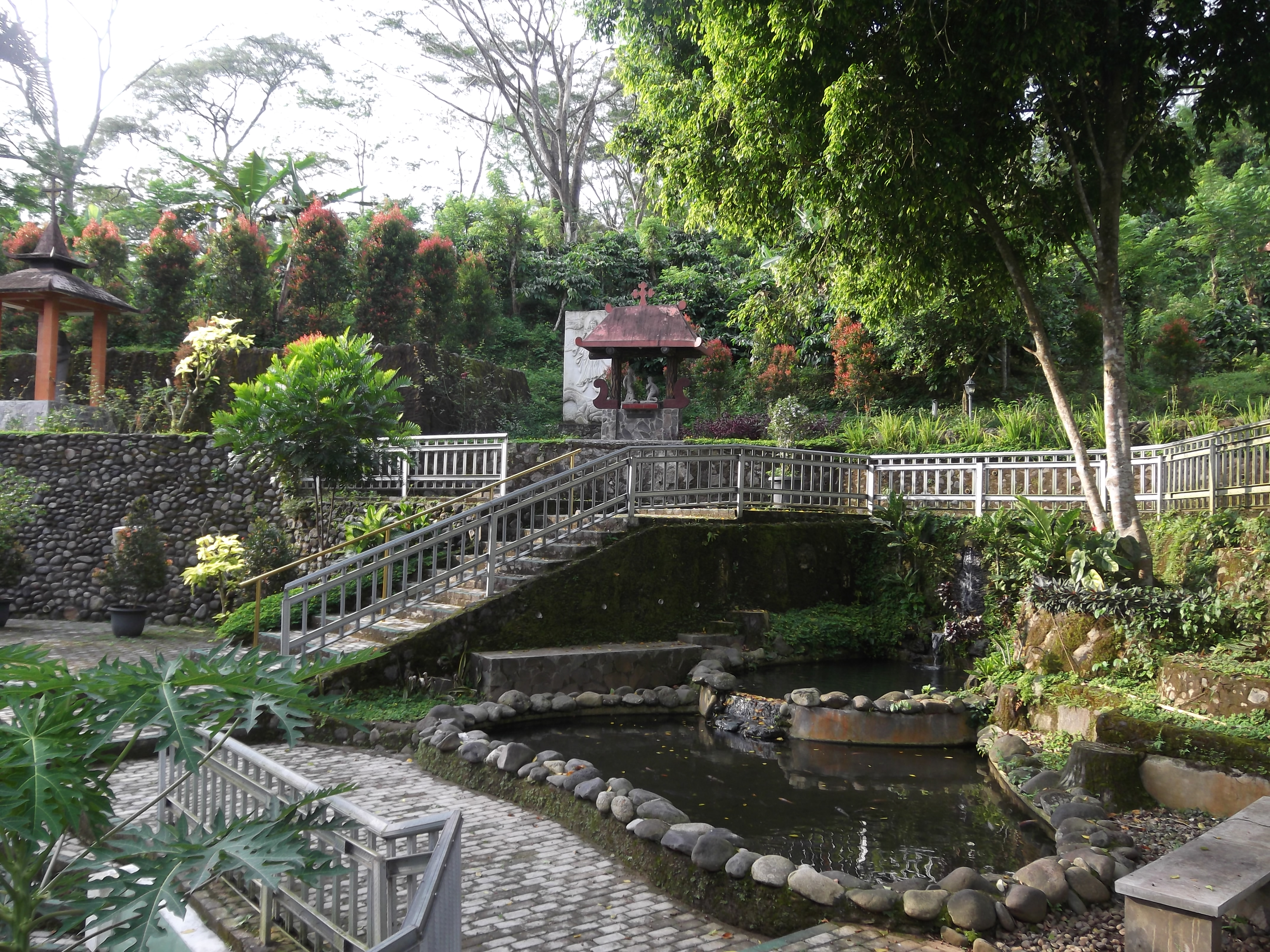 Fish pond and fountain in the Saint Mary Rawaseneng Prayer Garden, in the Monastery of Saint Mary Rawaseneng complex, Temanggung, Indonesia.